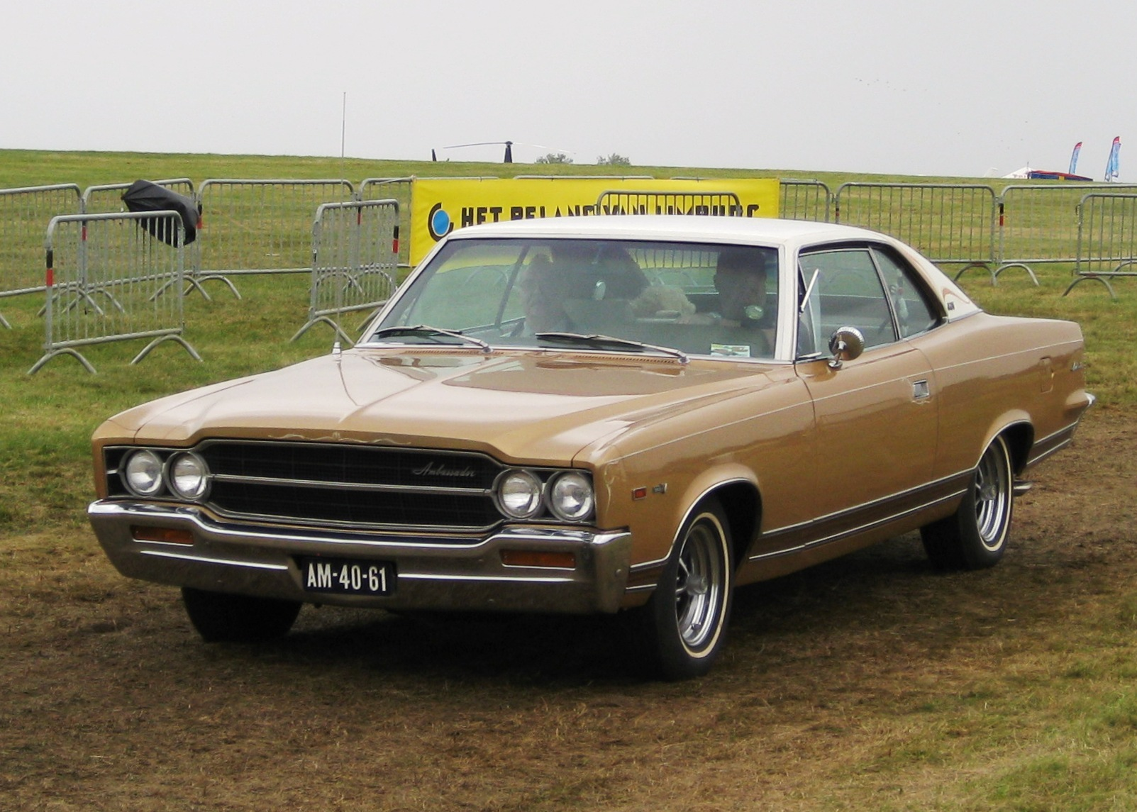 1969 AMC Ambassador SST Hardtop featuring a 360 cid, 5620 cc V8 engine and was built by American Motors Corporation. It is arriving at Schaffen-Diest, an international oldtimer fly & drive held annually at the airfield of Schaffen-Diest in Belgium. This automobile was first registered June 1969 in the U.S., then first registered in the Netherlands September 2007.